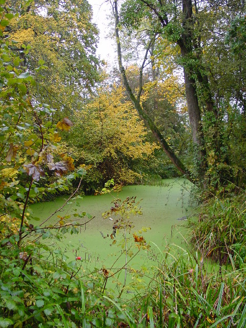 Mediaeval Fishponds - Park Farm, Thornbury. The fishponds are shown on a map in 1716 but are believed to be much older - mid 13th century. The fish would have been carp and tench. The ponds were abandoned probably 300 - 400 years ago.